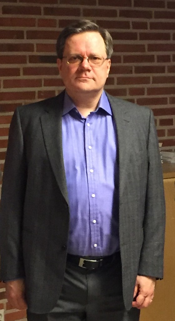 Jaakko Mäntyjärvi (b. 1963), a Finnish composer